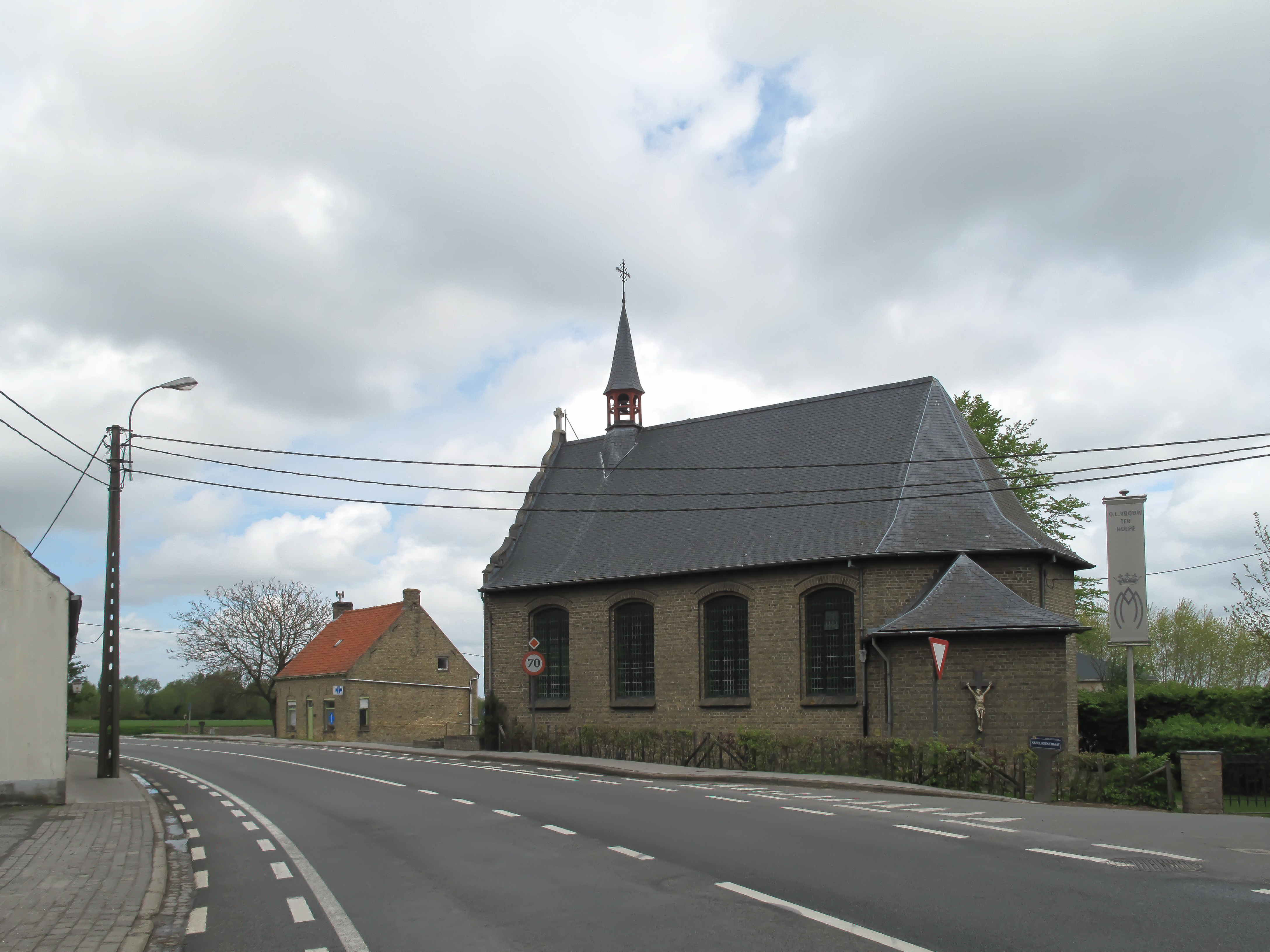 Esen, chapel: heropgebouwde kapel Onze-Lieve-Vrouw-ter-Hulpe